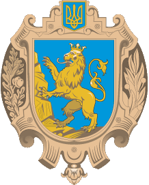 Coat of arms of Lviv Oblast, Ukraine